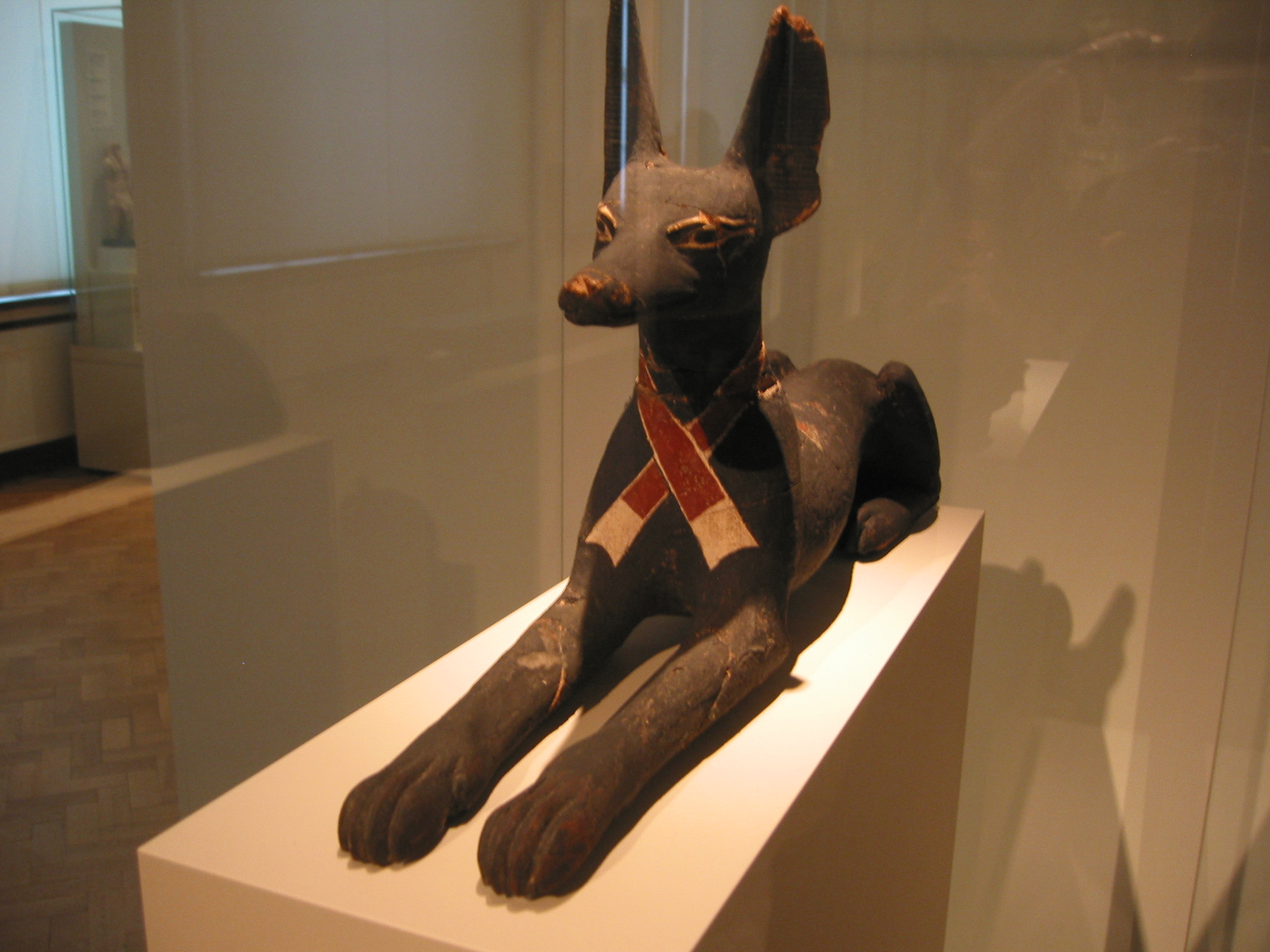 Object in the Ägyptisches Museum Berlin (Egyptian museum, building of the New Museum), Berlin.